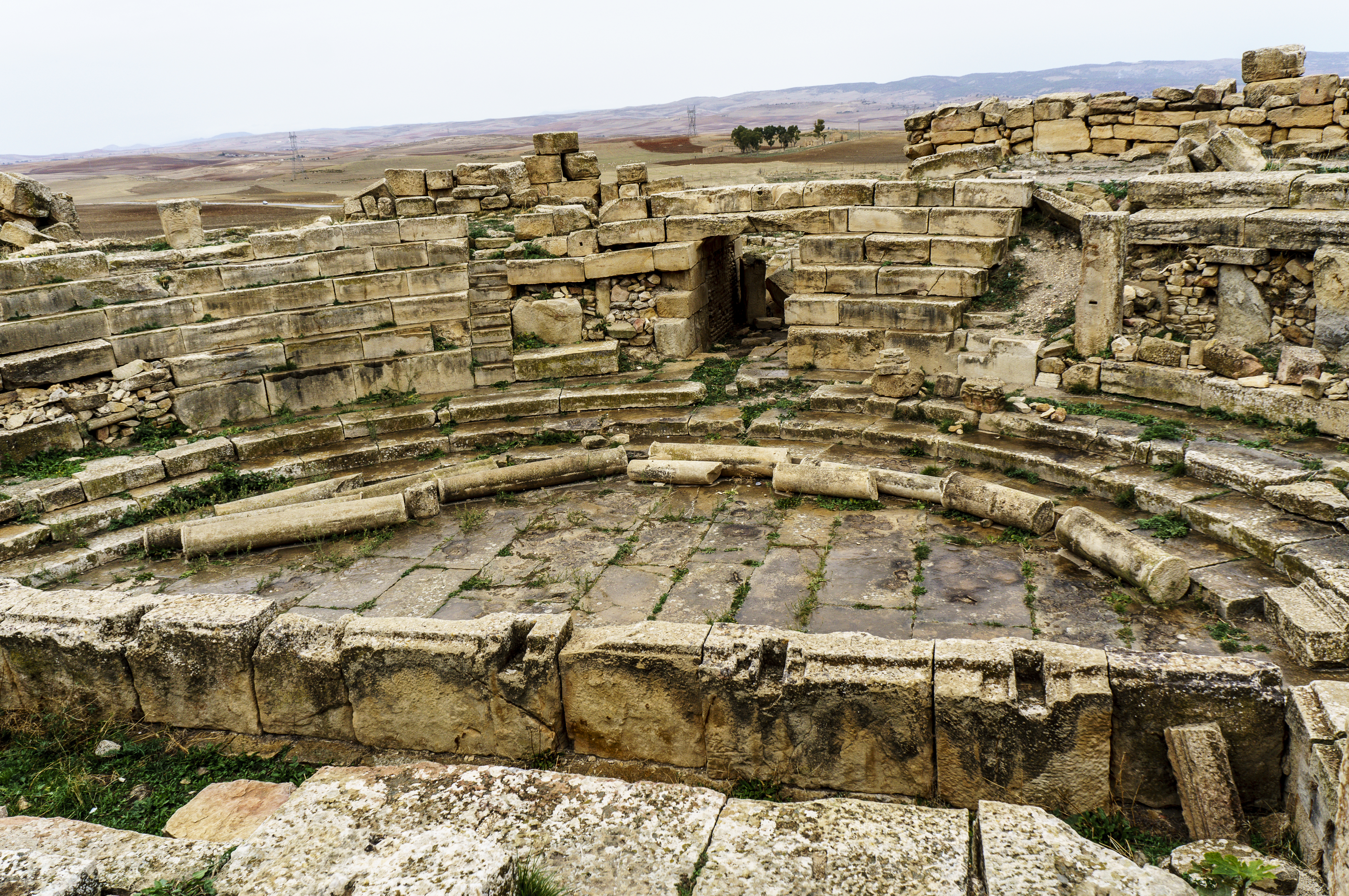 Theatre - Madaure (near Souk Ahras)